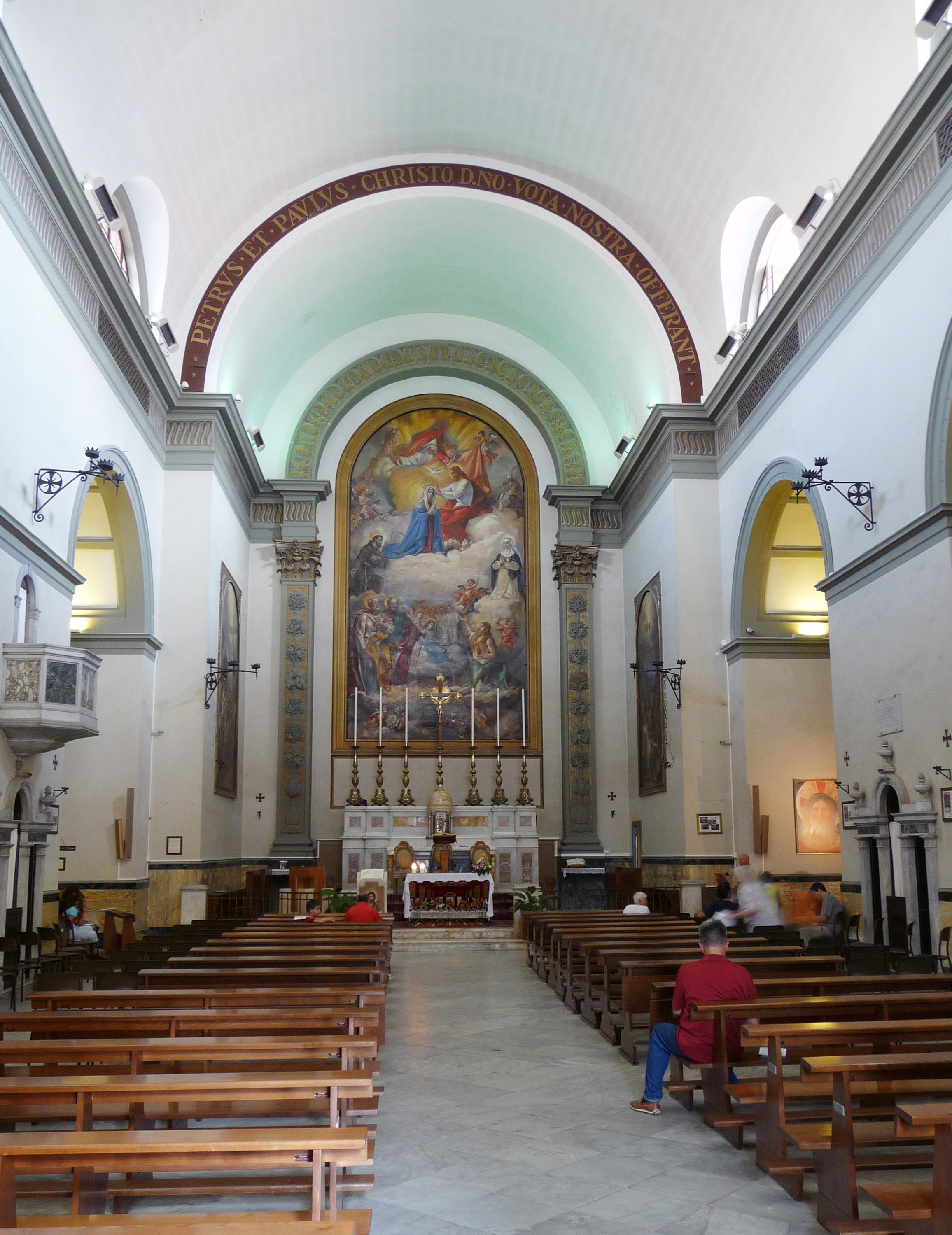 Church "Chiesa dei Santi Pietro e Paolo", Livorno, Italy